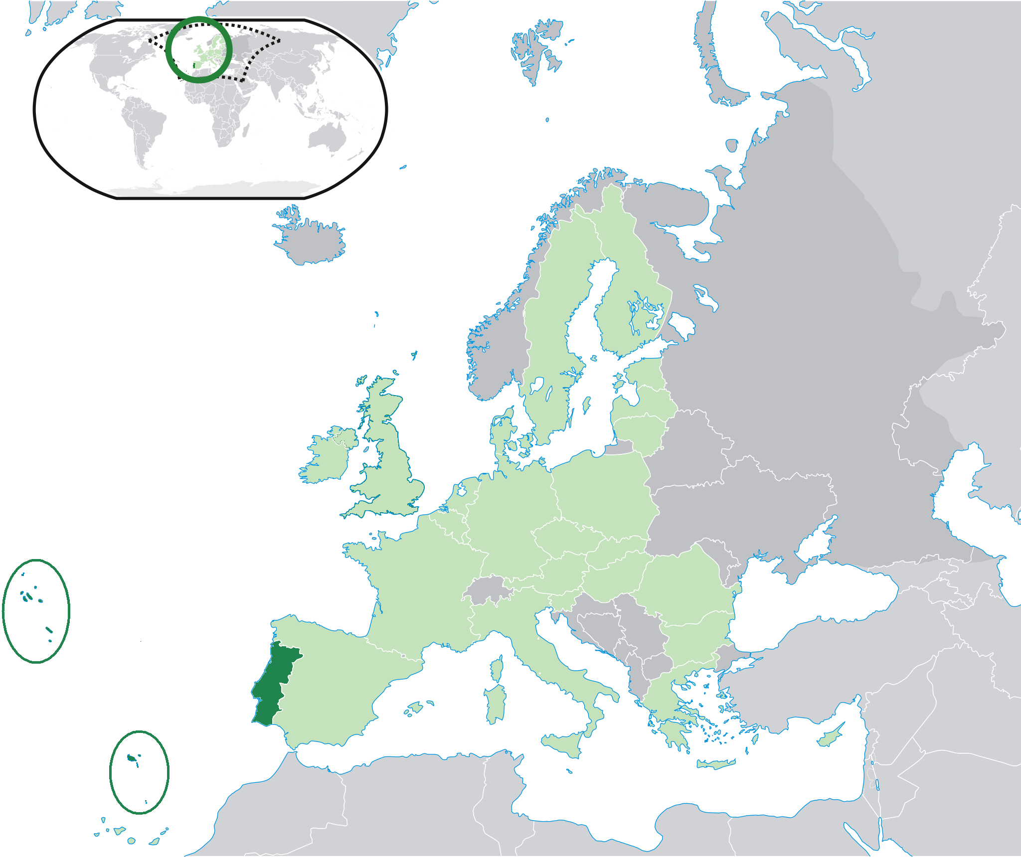 Location map: Portugal (dark green) / European Union (light green) / Europe (dark grey); inspired by and consistent with general country locator maps by User:Vardion, et al.